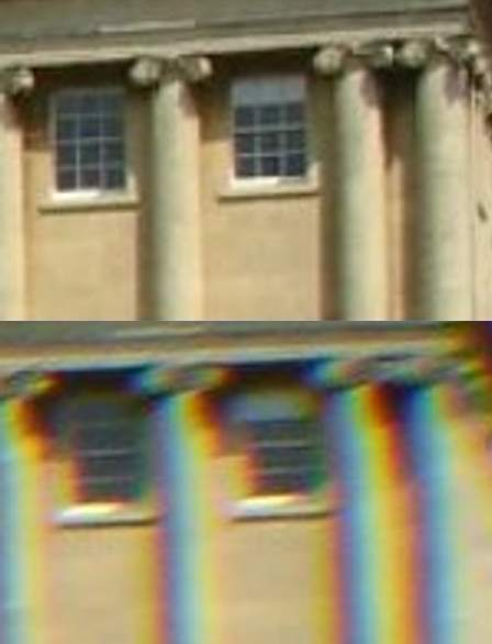 Chromatic aberration. Top image shows a photo taken with a built-in lens of digital camera (Sony V3). Bottom photo taken with the same camera, but with additional wide angle lens.